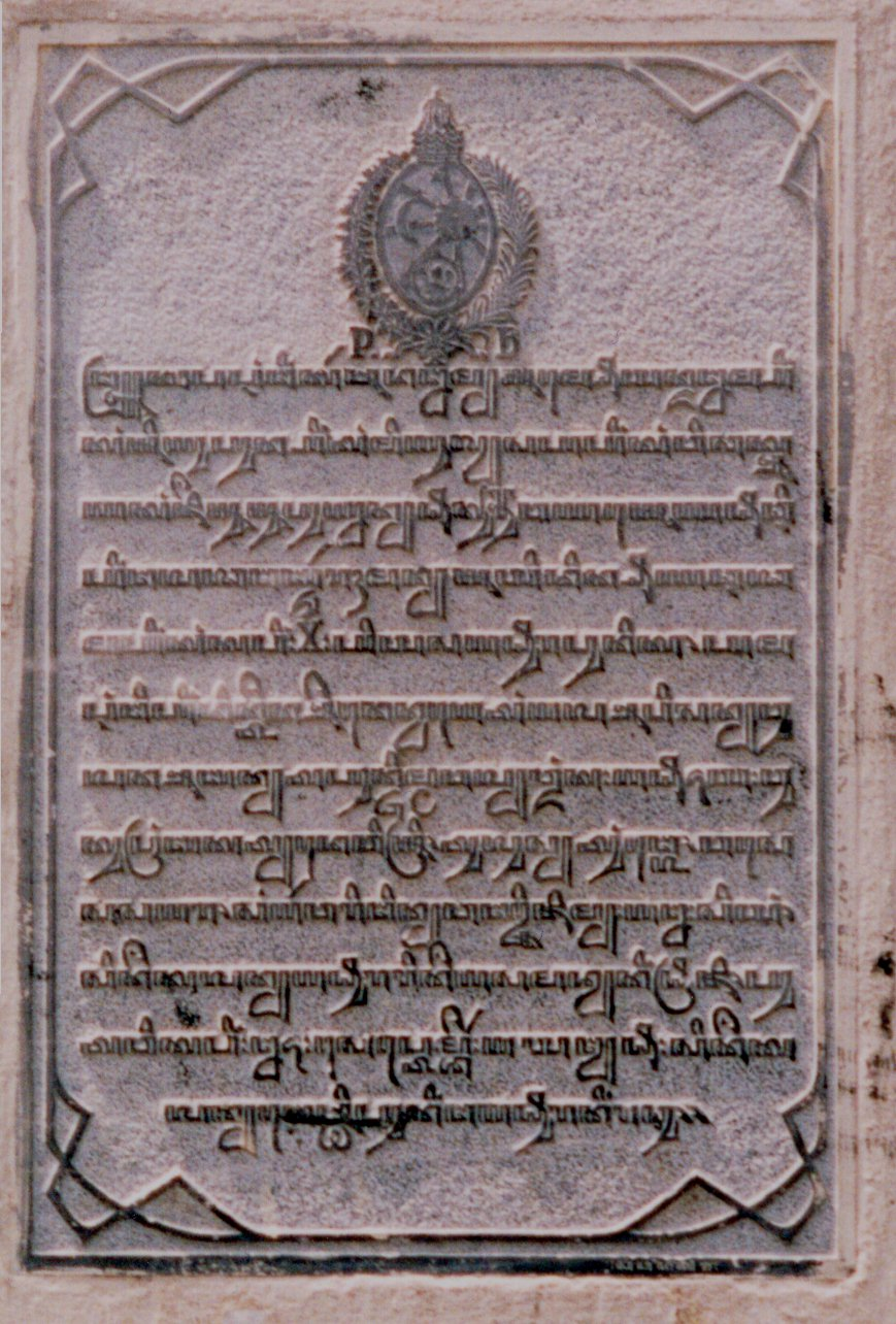 The inscription commemorates the construction of a gapura or gate in the Surakarta area which was built under the orders of Pakubuwana X.